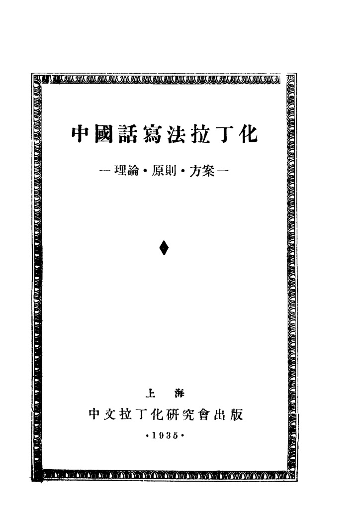 The first book introducing Latinxua Sin Wenz to China, published in 1935, republished in 1936.